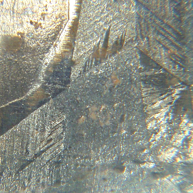 Close-up of galvanized spangle